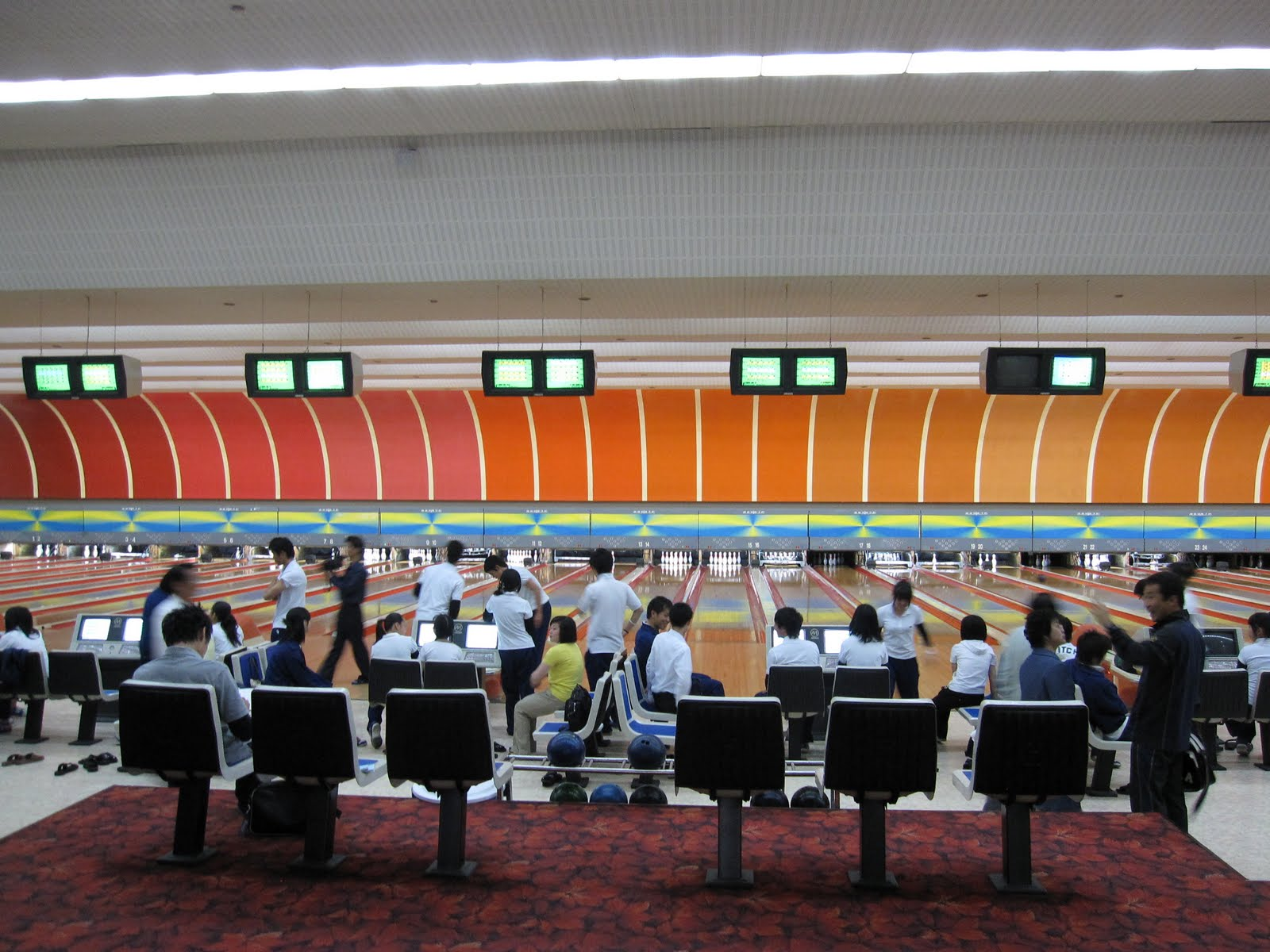 At 5:15 it was packed, at 6:00 it emptied out as people went home for dnner